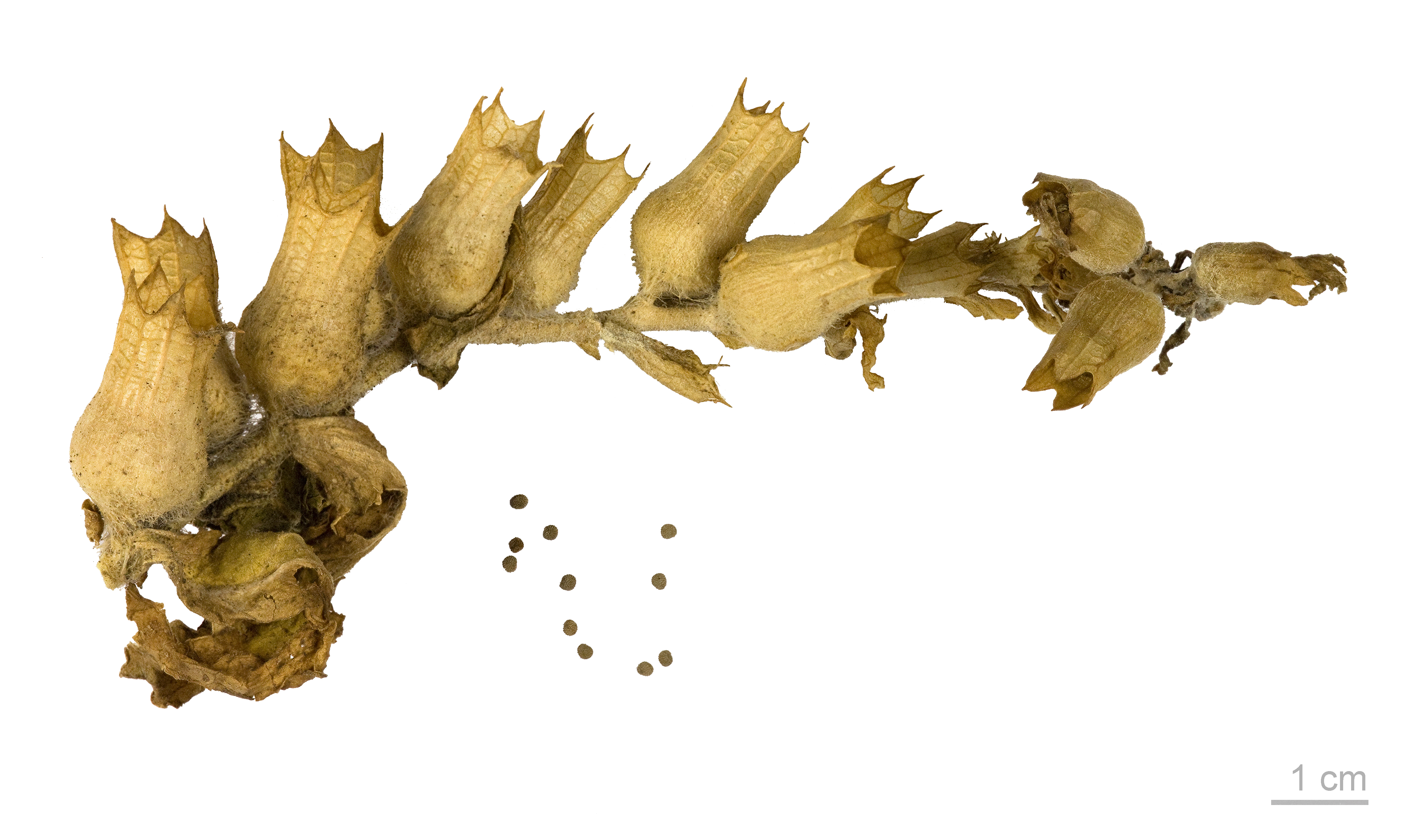 stinking nightshade , fruits and seeds